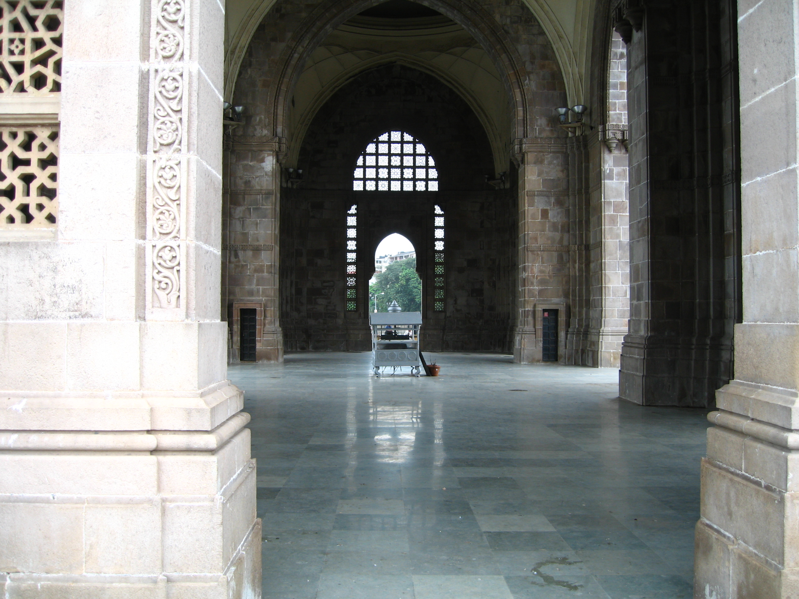 Interior of Gateway of India, Mumbai, India.